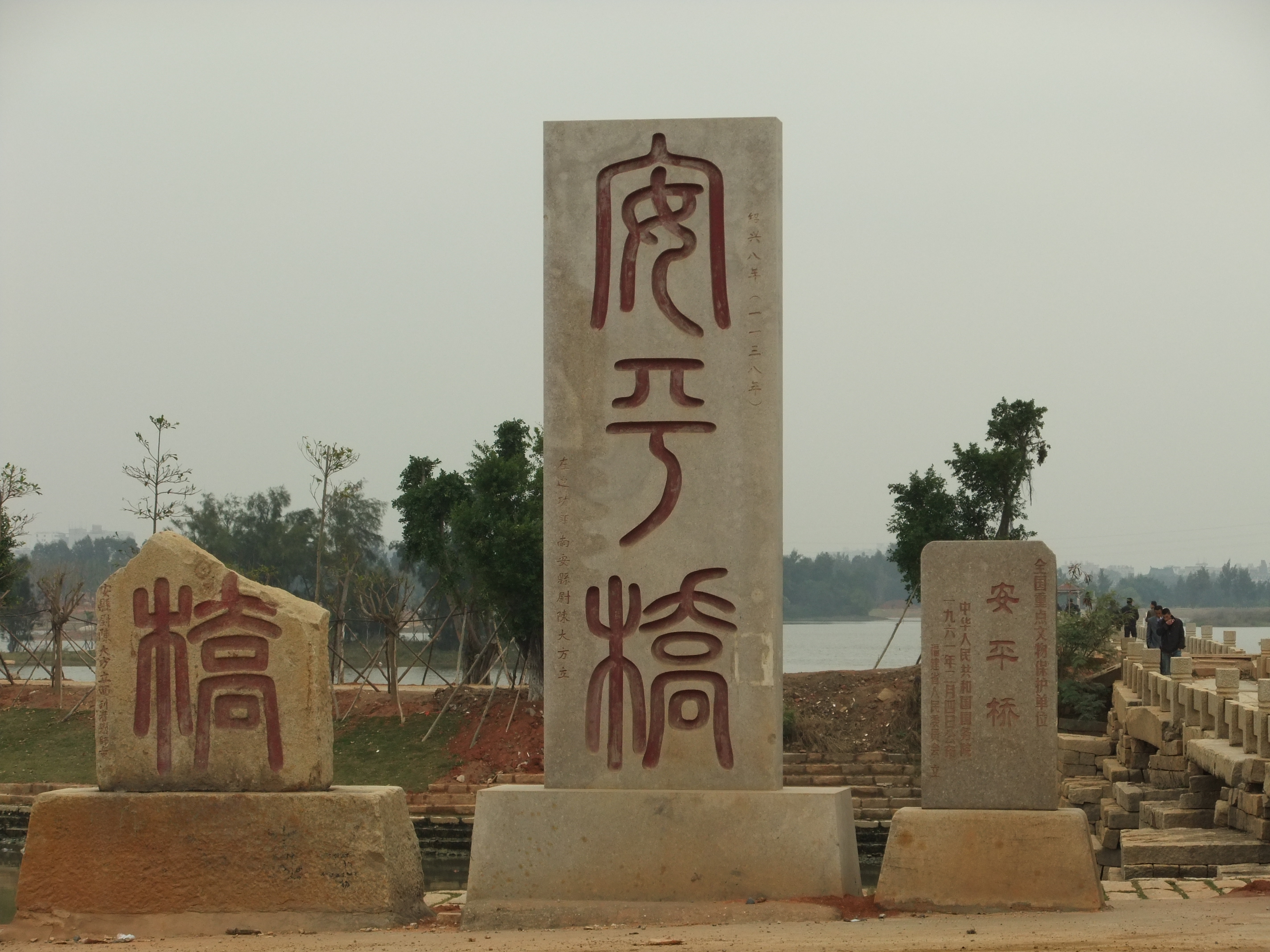 The western end of Anping Bridge, seen from Shuitou Town.